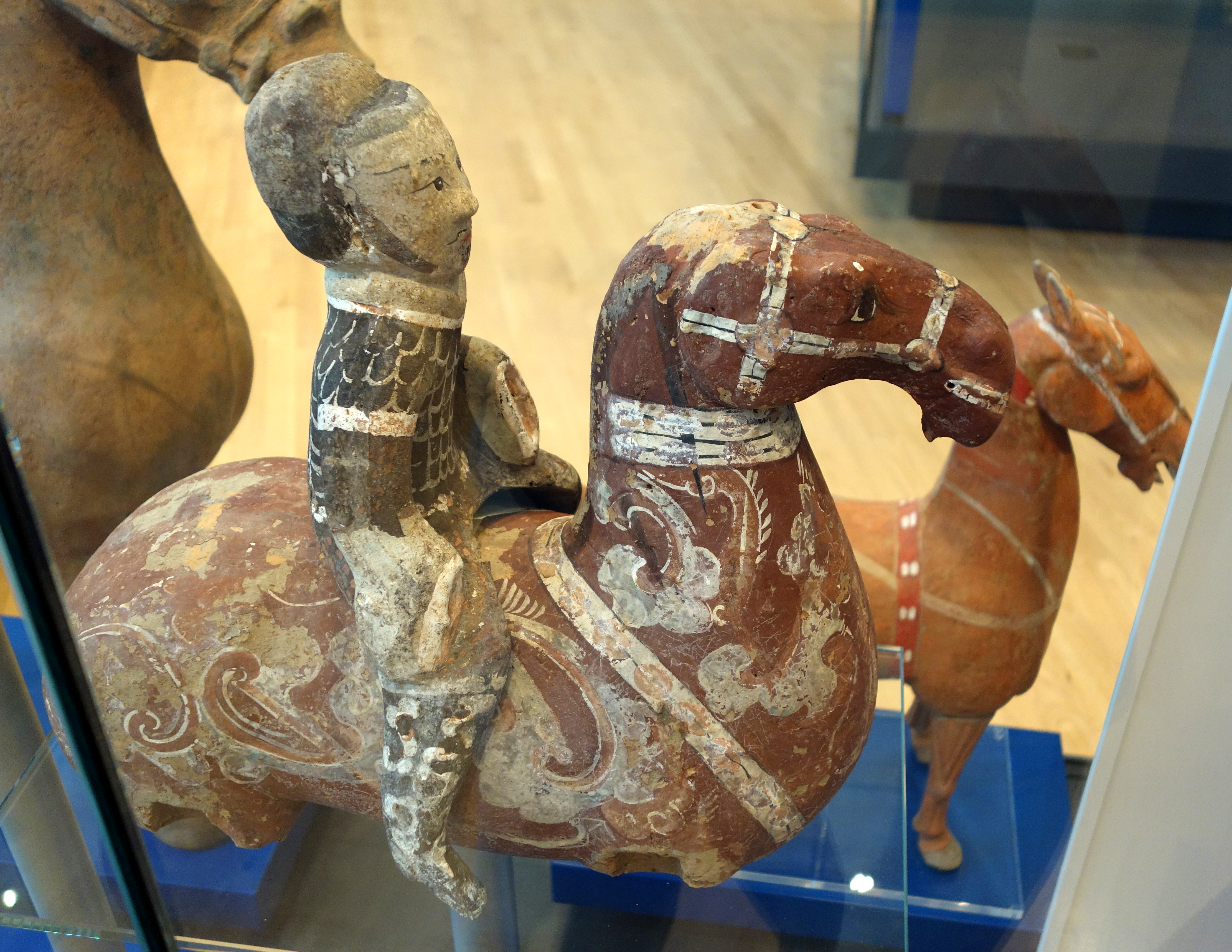 Exhibit in the Royal Ontario Museum, Toronto, Ontario, Canada. This work is old enough so that it is in the public domain.